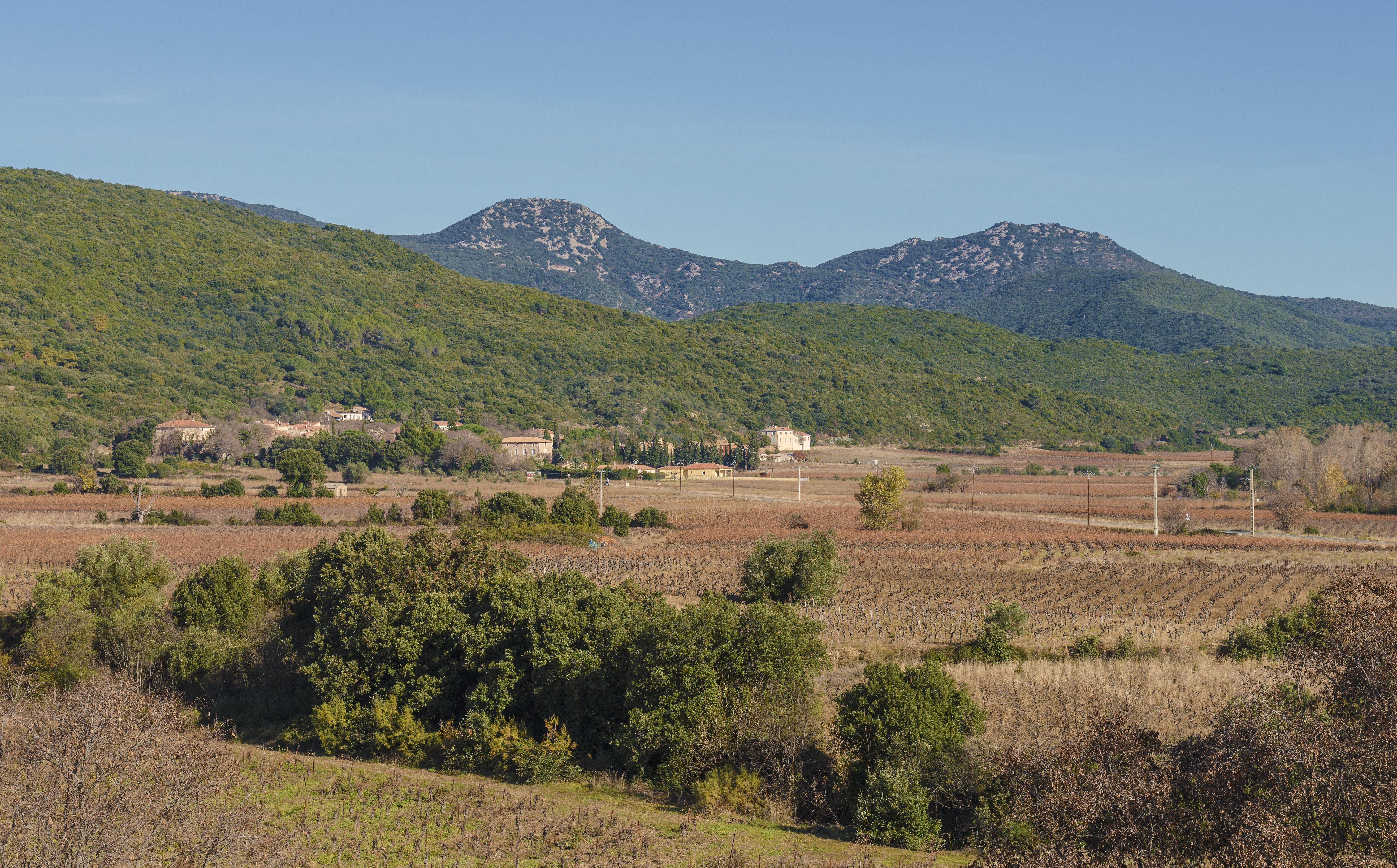 General view of the hamlet of Lugné from the Southwest. Cessenon-sur-Orb, Hérault, France.